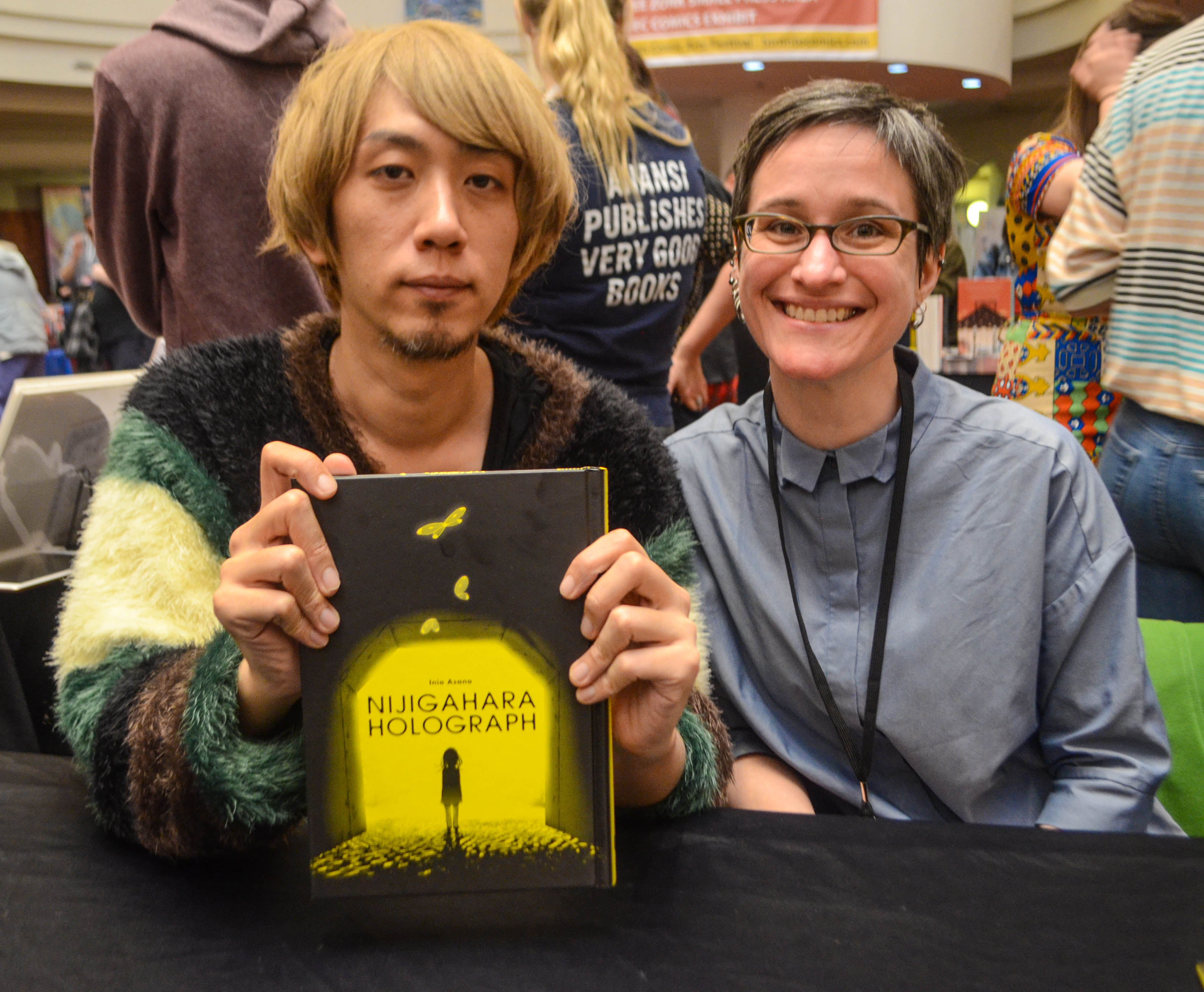 Inio Asano and Jocelyne Allen at Toronto Comic Arts Festival 2018.